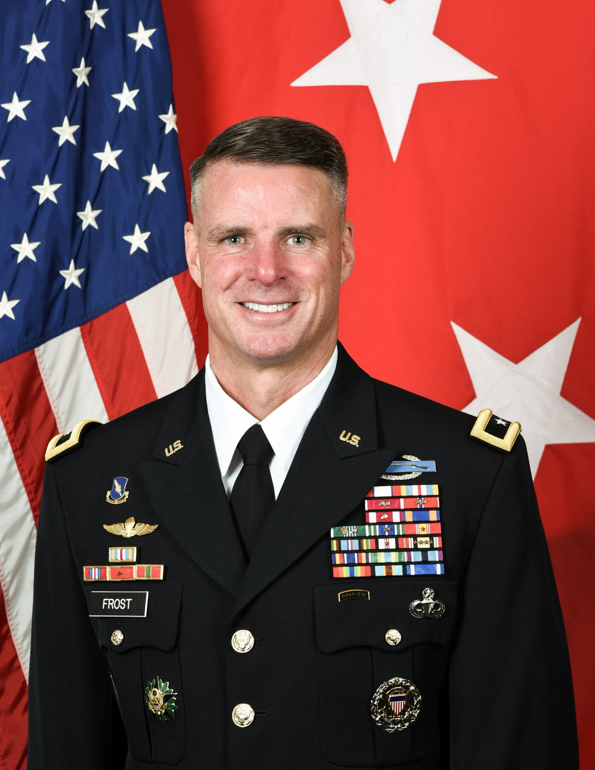 Current DOD photo of MG Frost